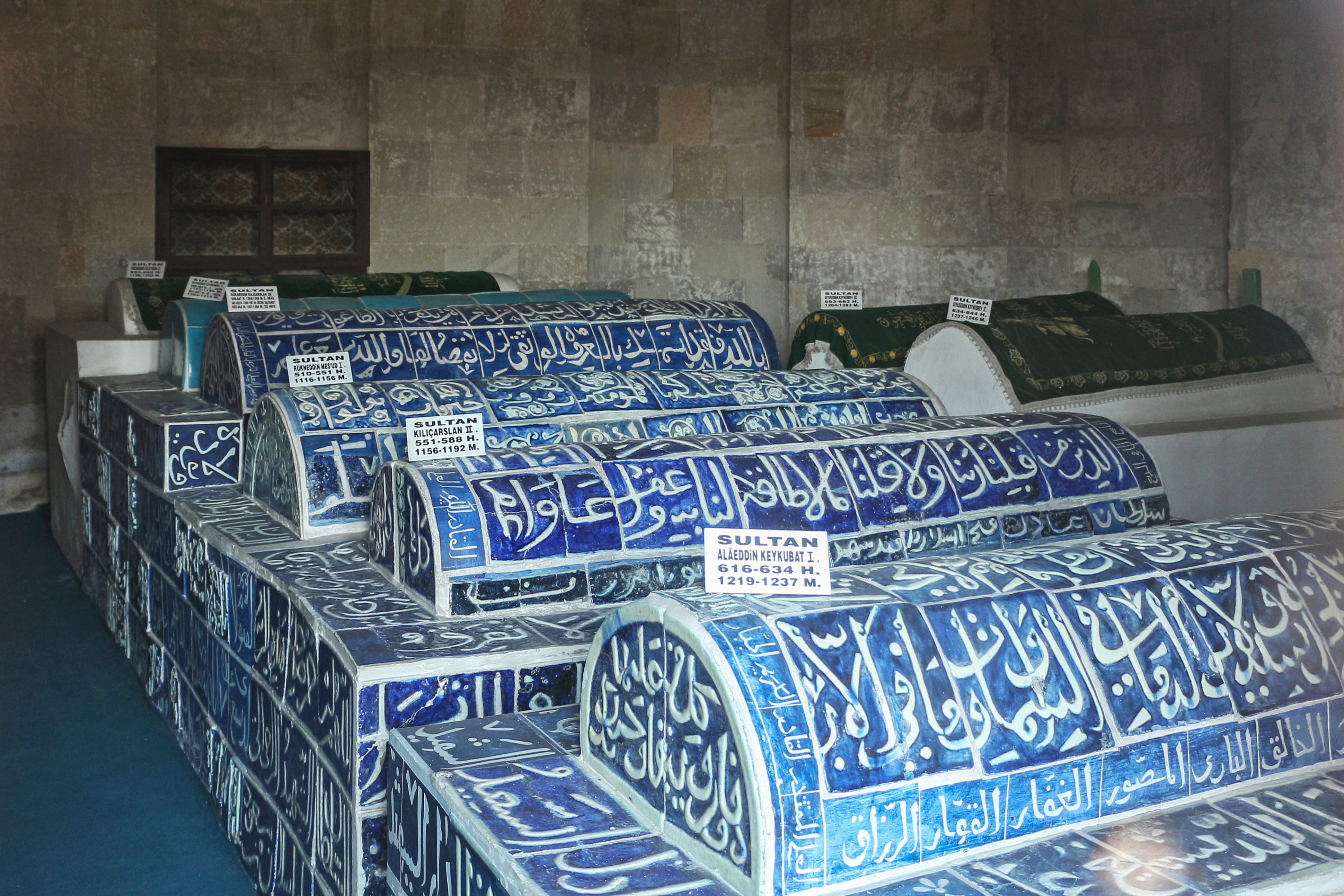 Tombs inside the Türbe Kilij Arslan II in the courtyard of the Alâeddin Mosque, Konya, Turkey